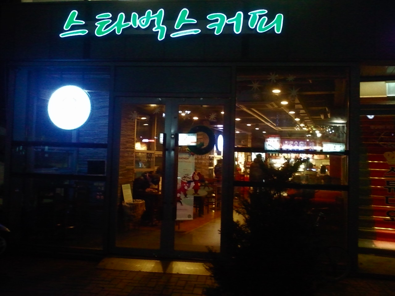 Starbucks cafe